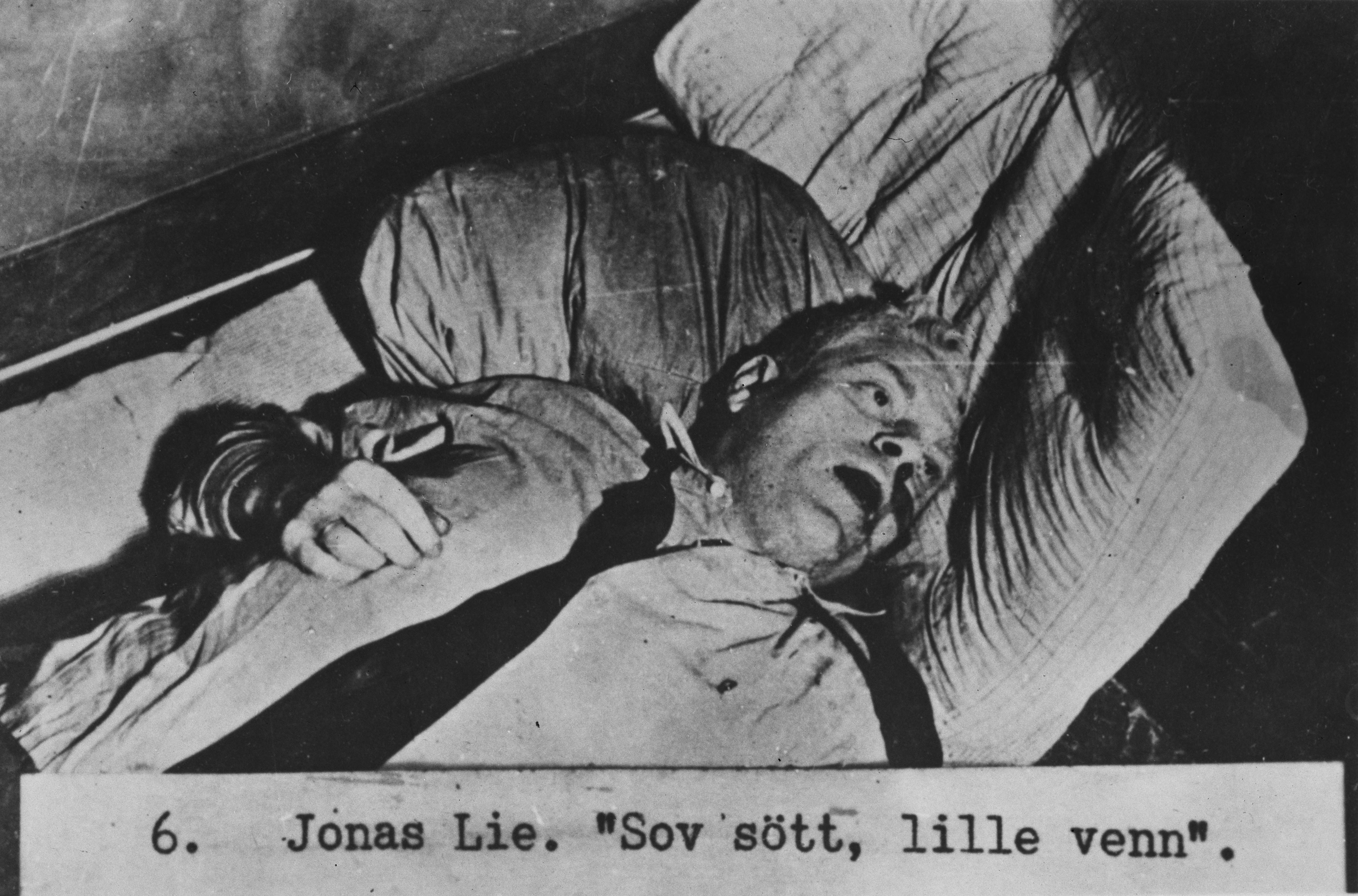 "The end of leading Germans and members of the Nasjonal Samling (NS, Norwegian fascist party)." A series of photos of former Nazi leaders and collaborators in German occupied Norway during World War II showing them at the end of the war or after the liberation in 1945: 6. Jonas Lie, Norwegian Minister of Police, as he was found dead on May 11th, 1945.